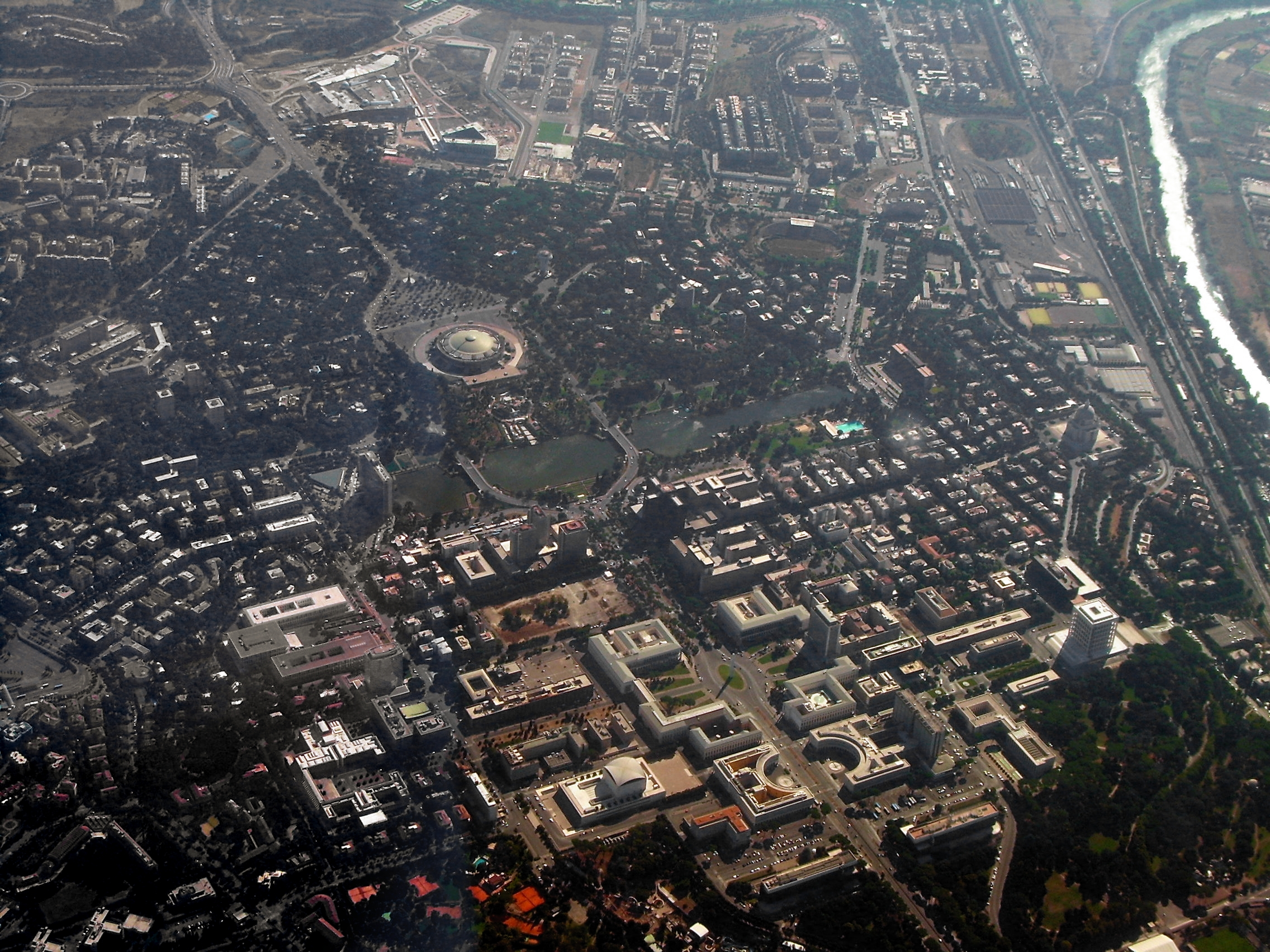 view of the EUR area of Rome from the airplane 2007. I improved the original pic; if you can do better, e.g. removing the blue shadow on left, feel free to overwrite this pic